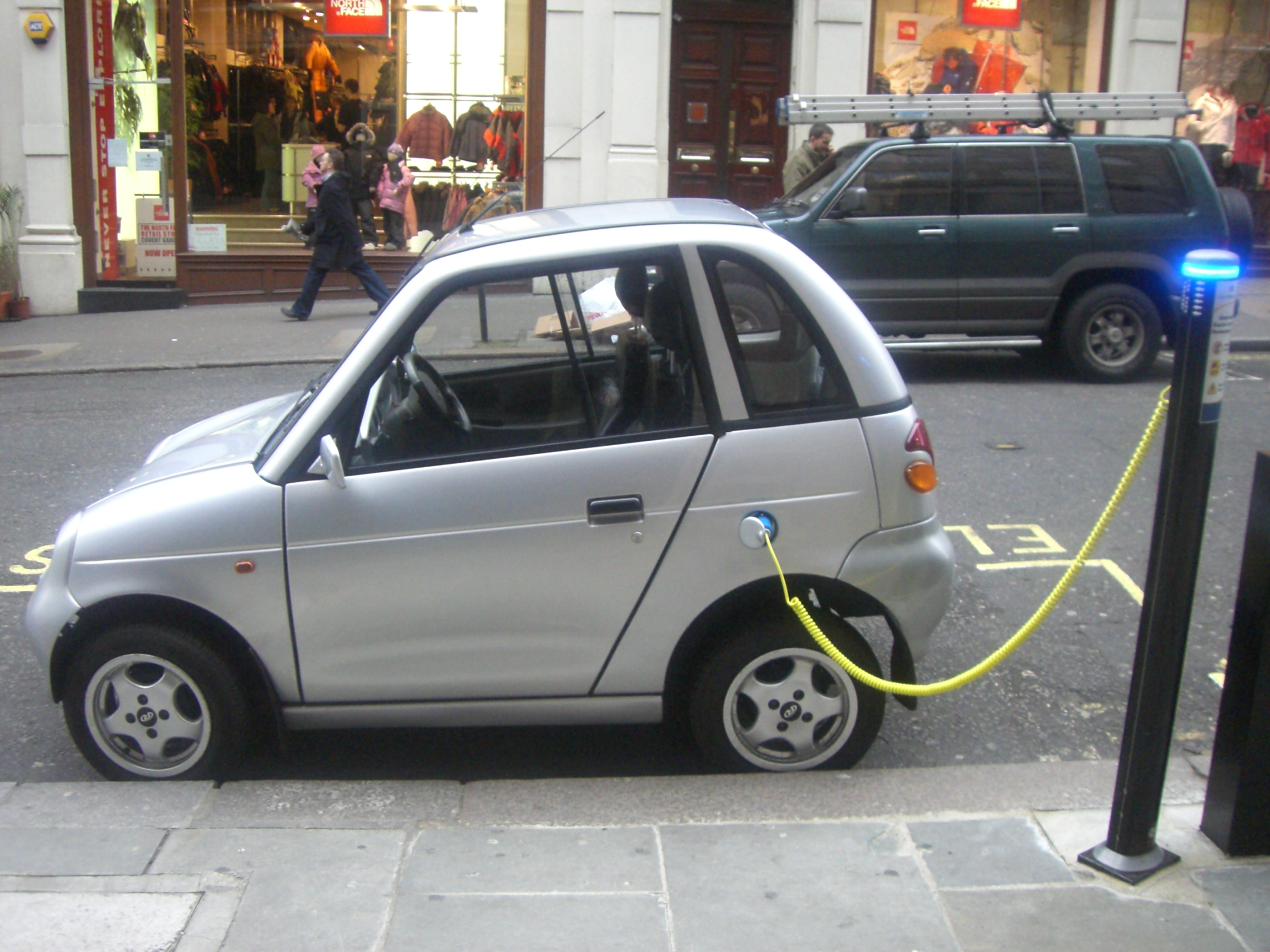 A Reva i/G-Wiz charging in London, between Covent Garden and the Strand.